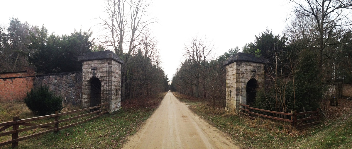 Carinhall, Göring's mansion north of Berlin